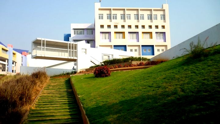 Towards view tube at AIT